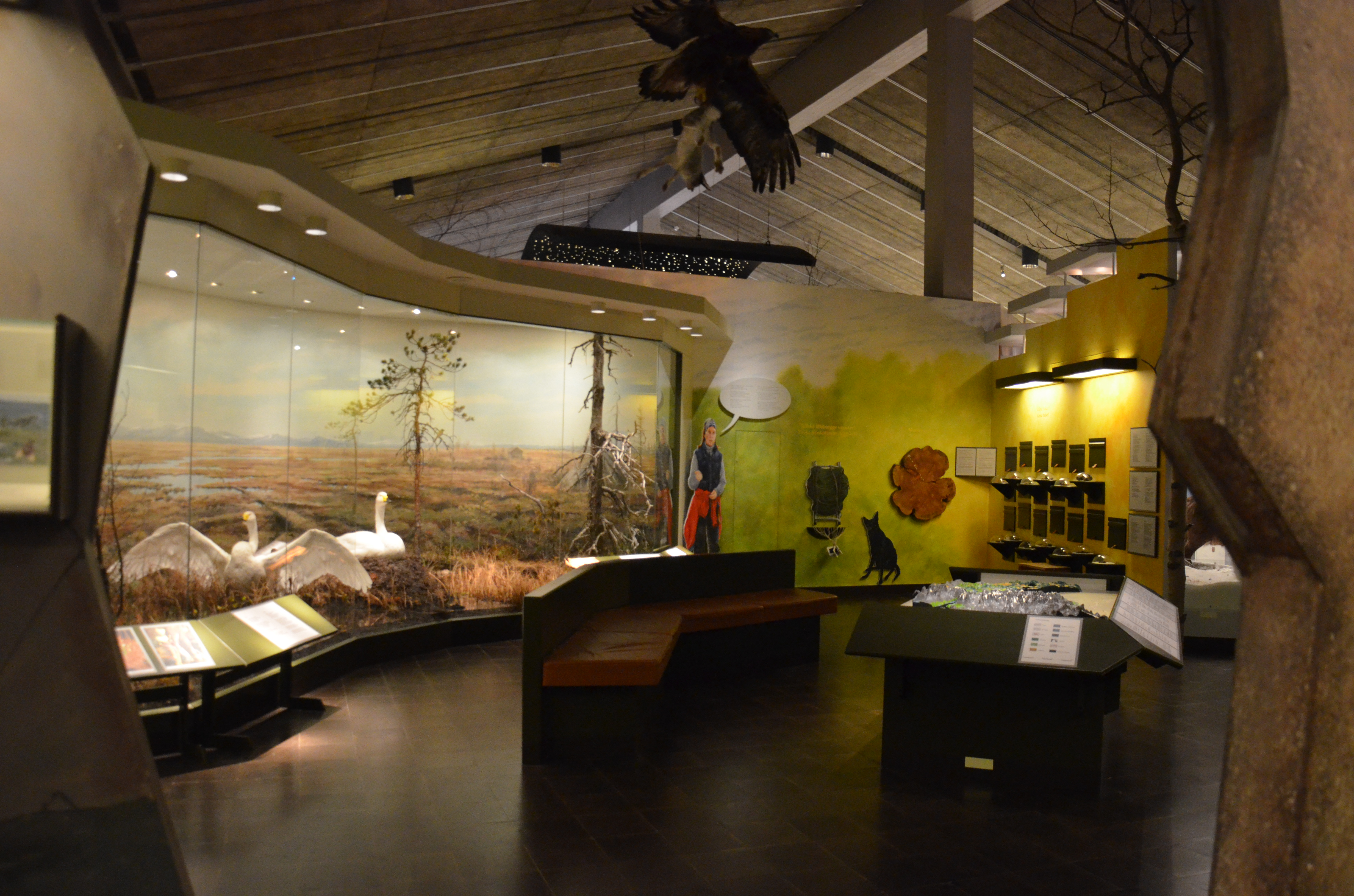 Naturdiorama på Ajtte i Jokkmokk